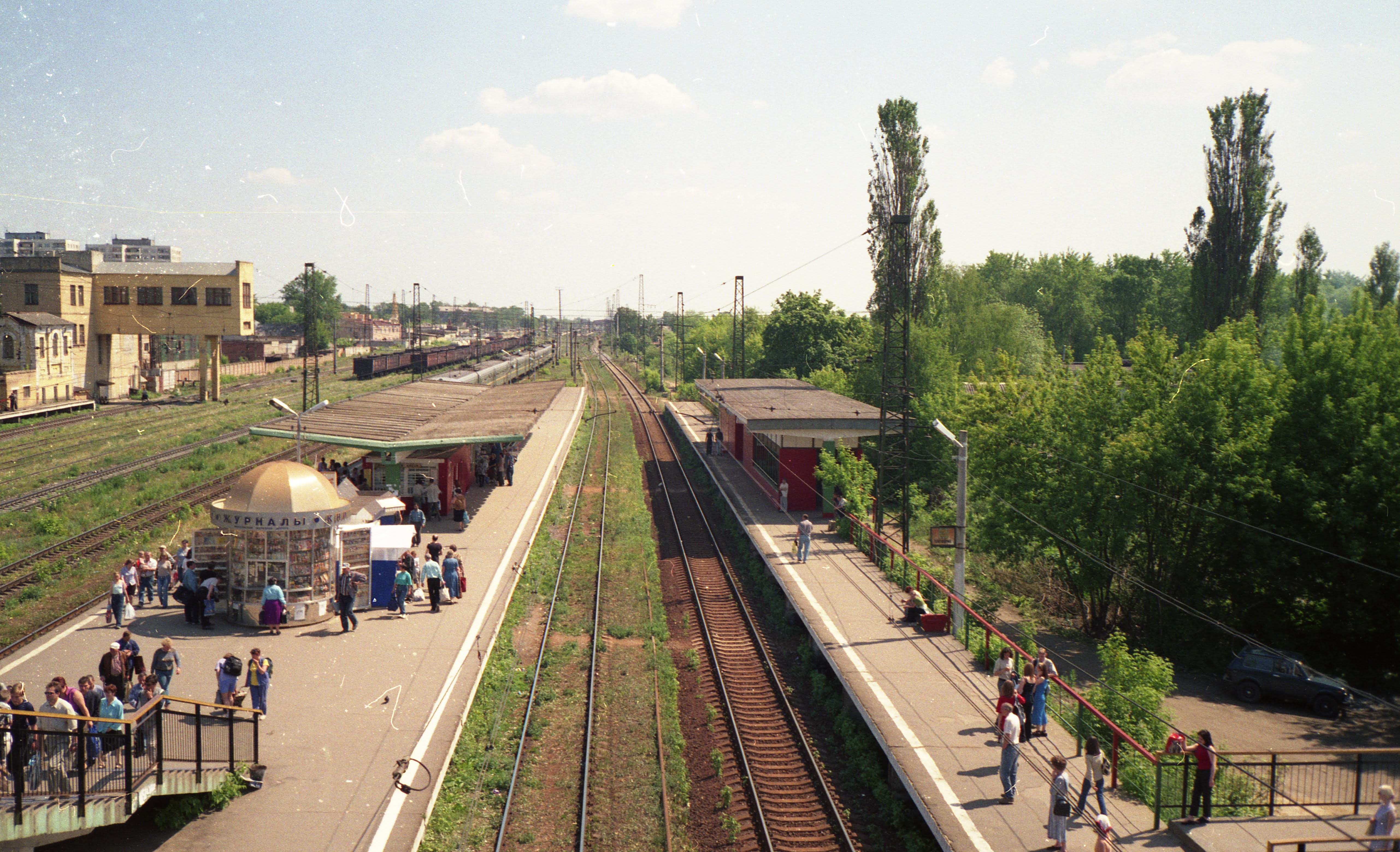 MPS Ramenskoe station.